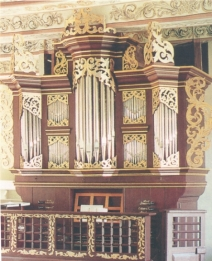 Schnitger organ Dedesdorf